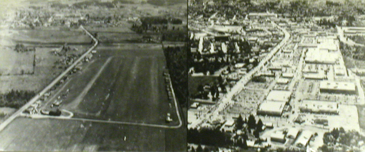 Bernard Airport/Bernard Beaverton Mall, looking south. Historical images of Beaverton, Oregon. The arterial street running east-west near the bottom of the righthand (1980s) photo is Walker Road. It is out-of-frame in the 1930s photo.